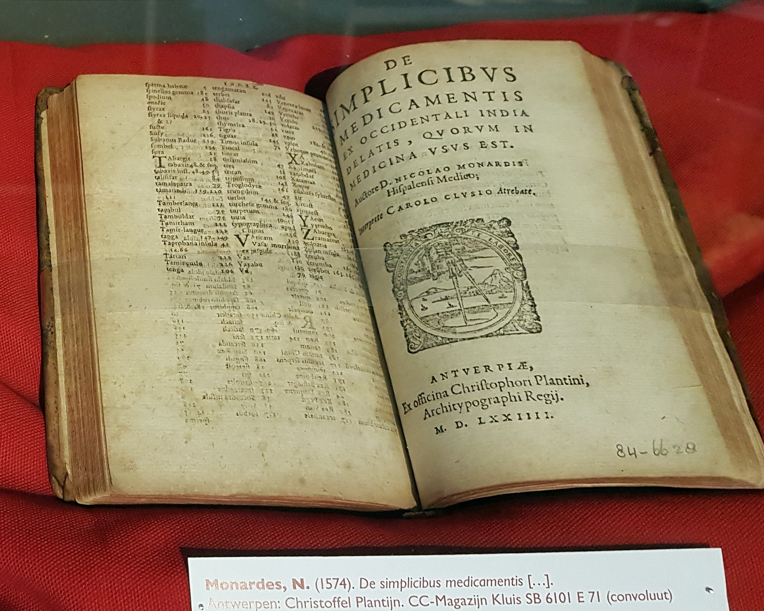 N Monardes, De simplicibus medicamentis, etc (Antwerp, C Plantijn, 1574). Collection Centre Céramique (SB6101E71), Maastricht, the Netherlands.